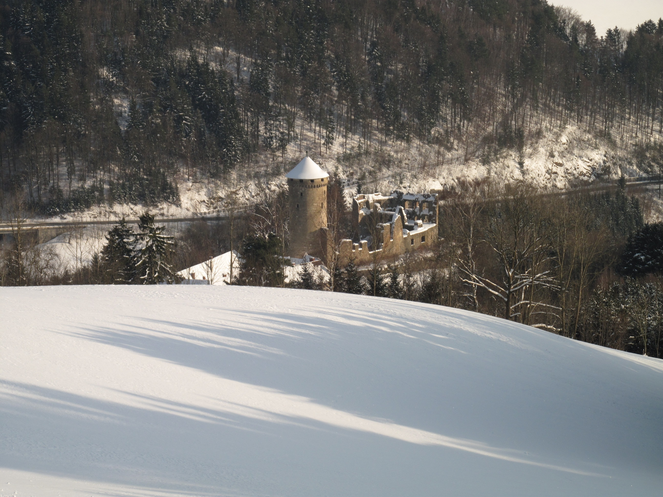 Ruins of castle Wildberg, north of Linz, in Austria, Europe. Photo taken from village Kirchschlag during winter. Castle and surroundings covered in snow.